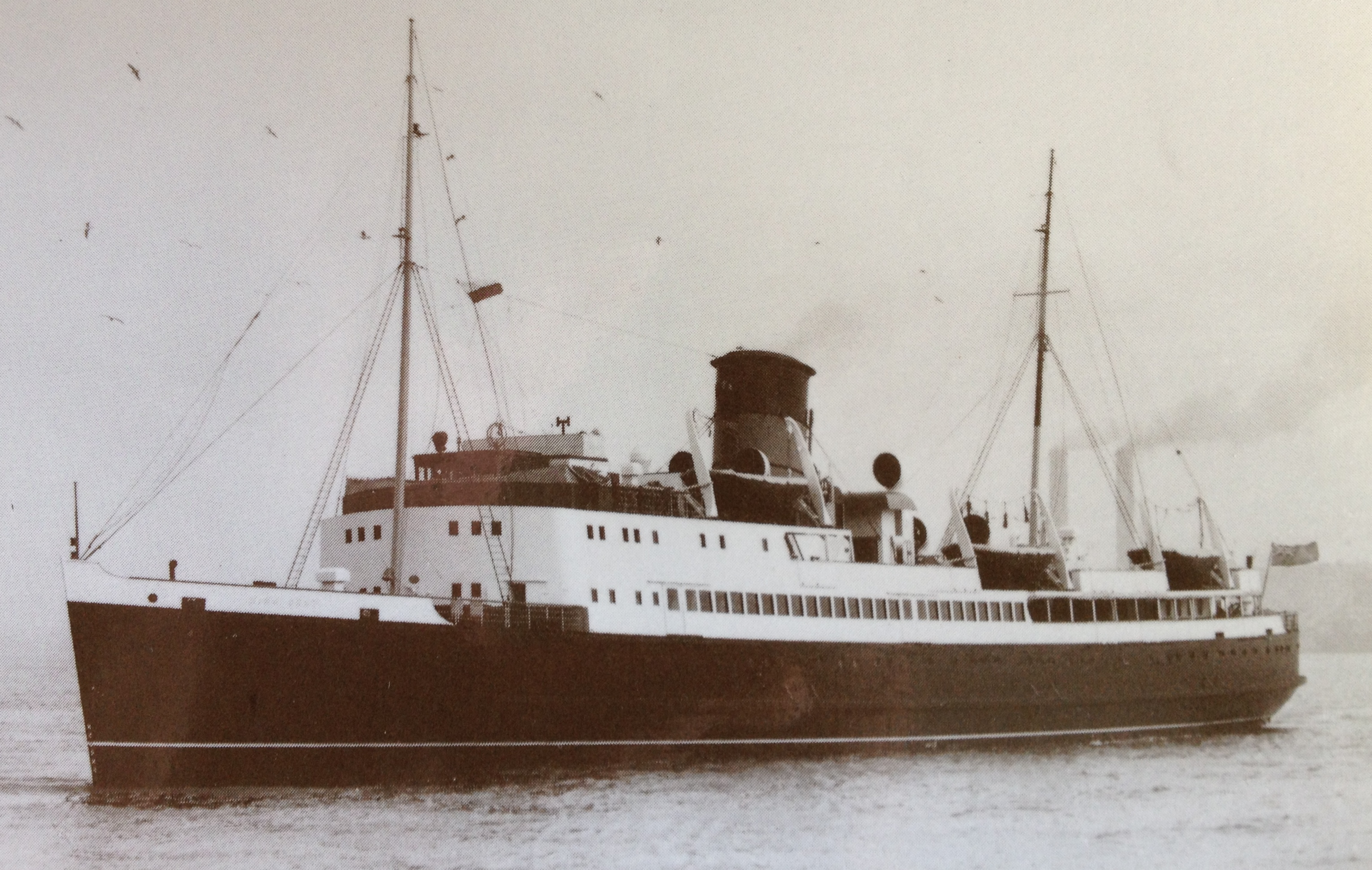 King Orry pictured after she commenced service with the Isle of Man Steam Packet Company.